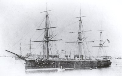 Photograph of Royal Navy screw frigate HMS Shah (1876-1904). Photo from early period of service.